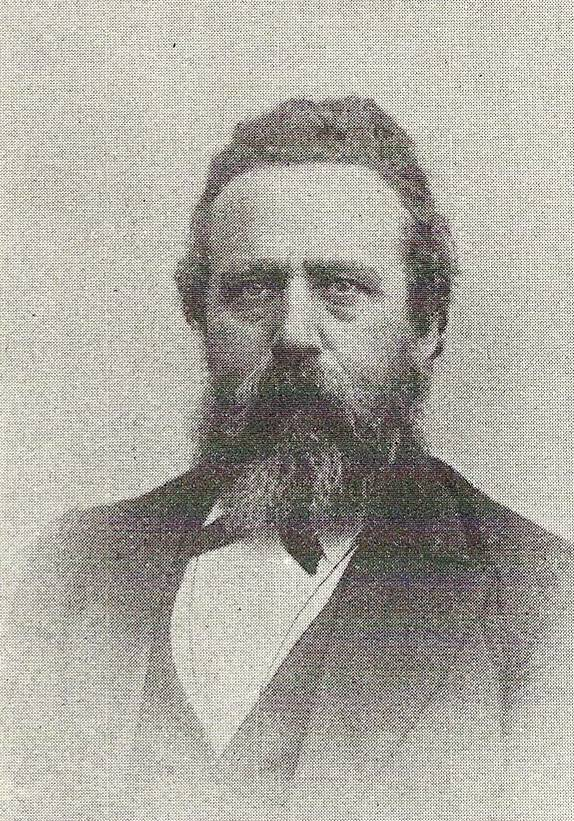 Danish writer Julius Villiam Gudmand-Høyer (1841-1915)